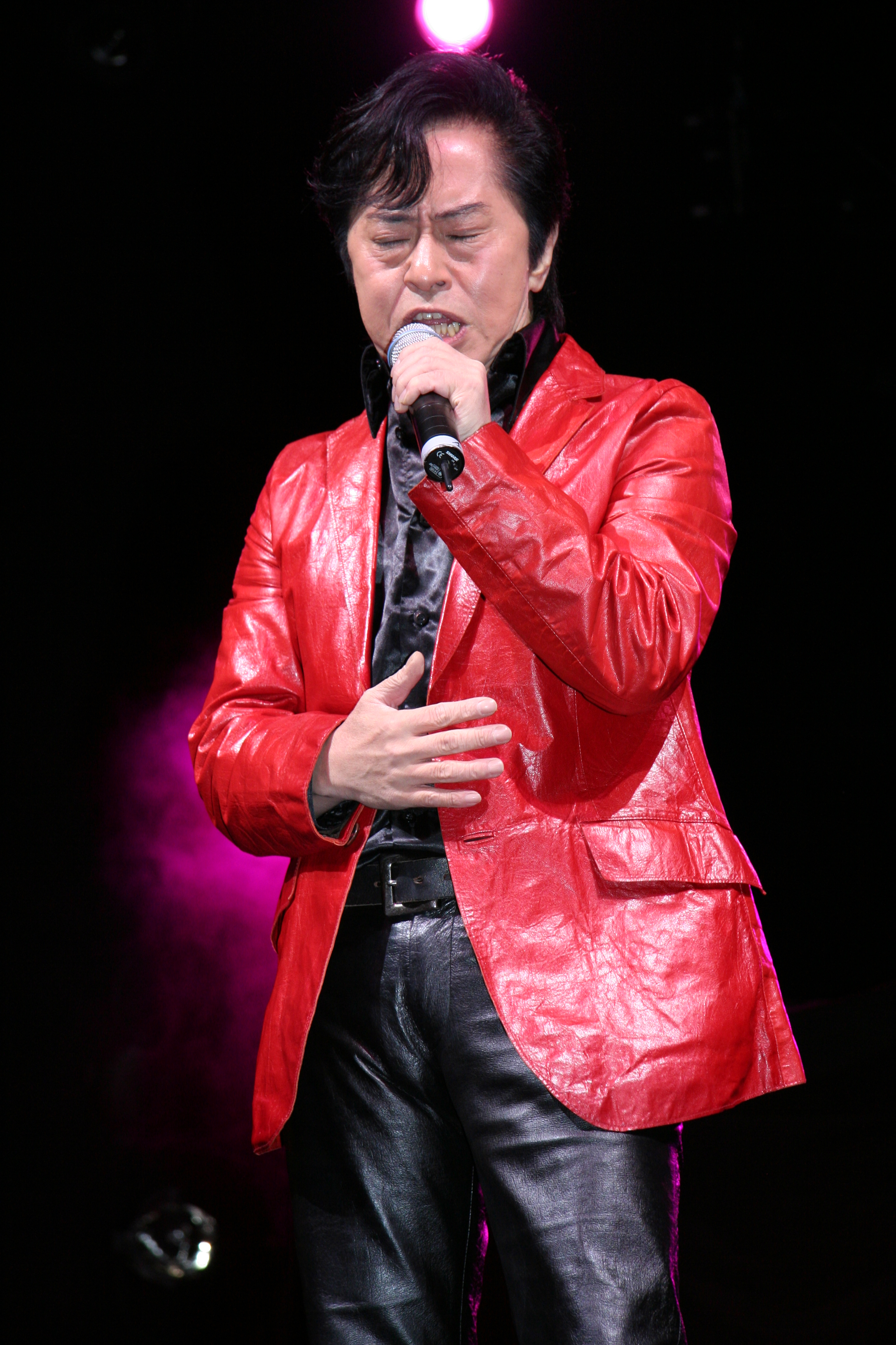 Ichiro Mizuki live at Japan Expo 2007 (Paris, France).